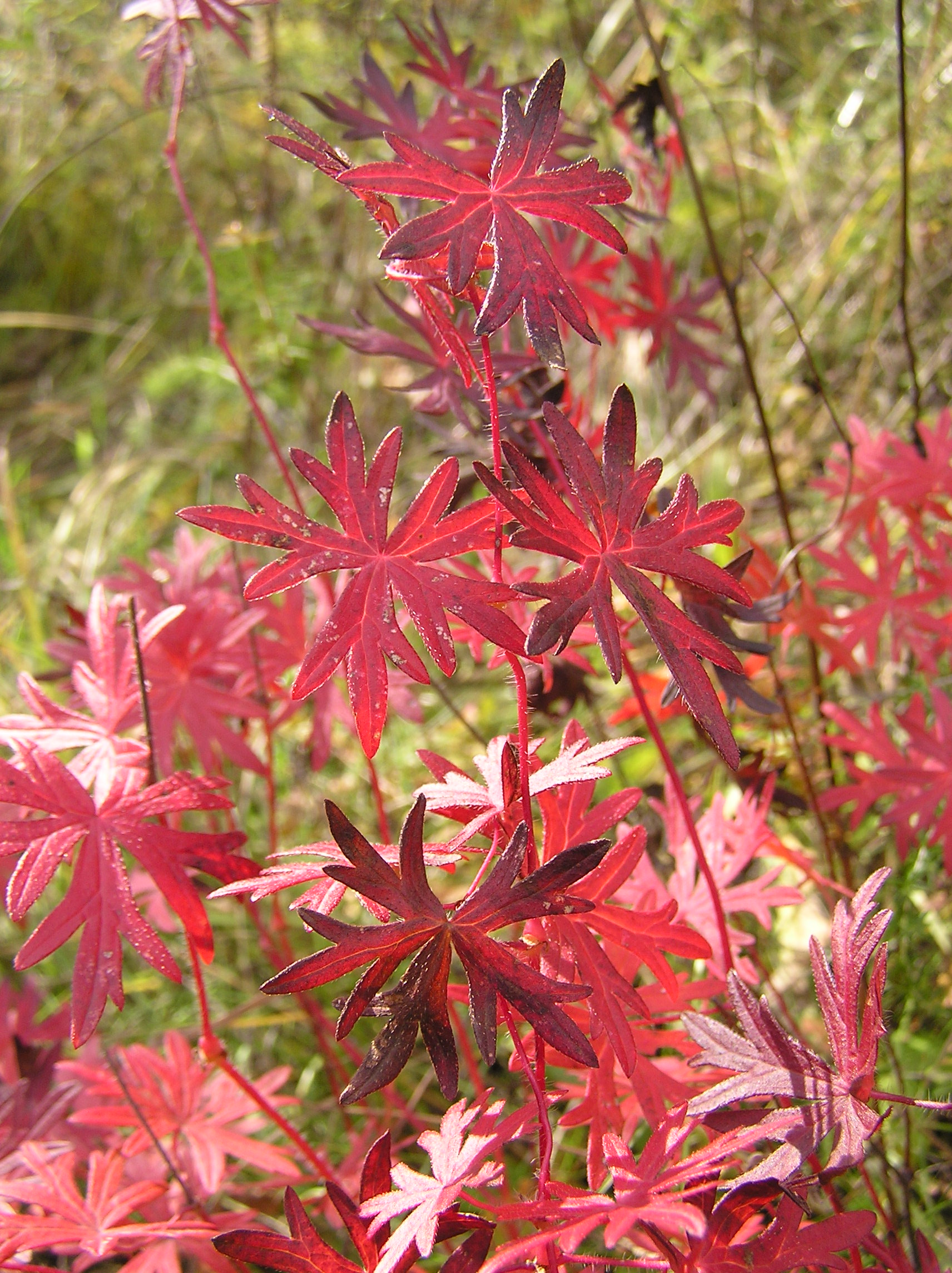 Geranium sanguineum L. in the fall. Habitat: opening in upland broadleaf forest. Tatishchevsky District of Saratov Oblast, Russia.